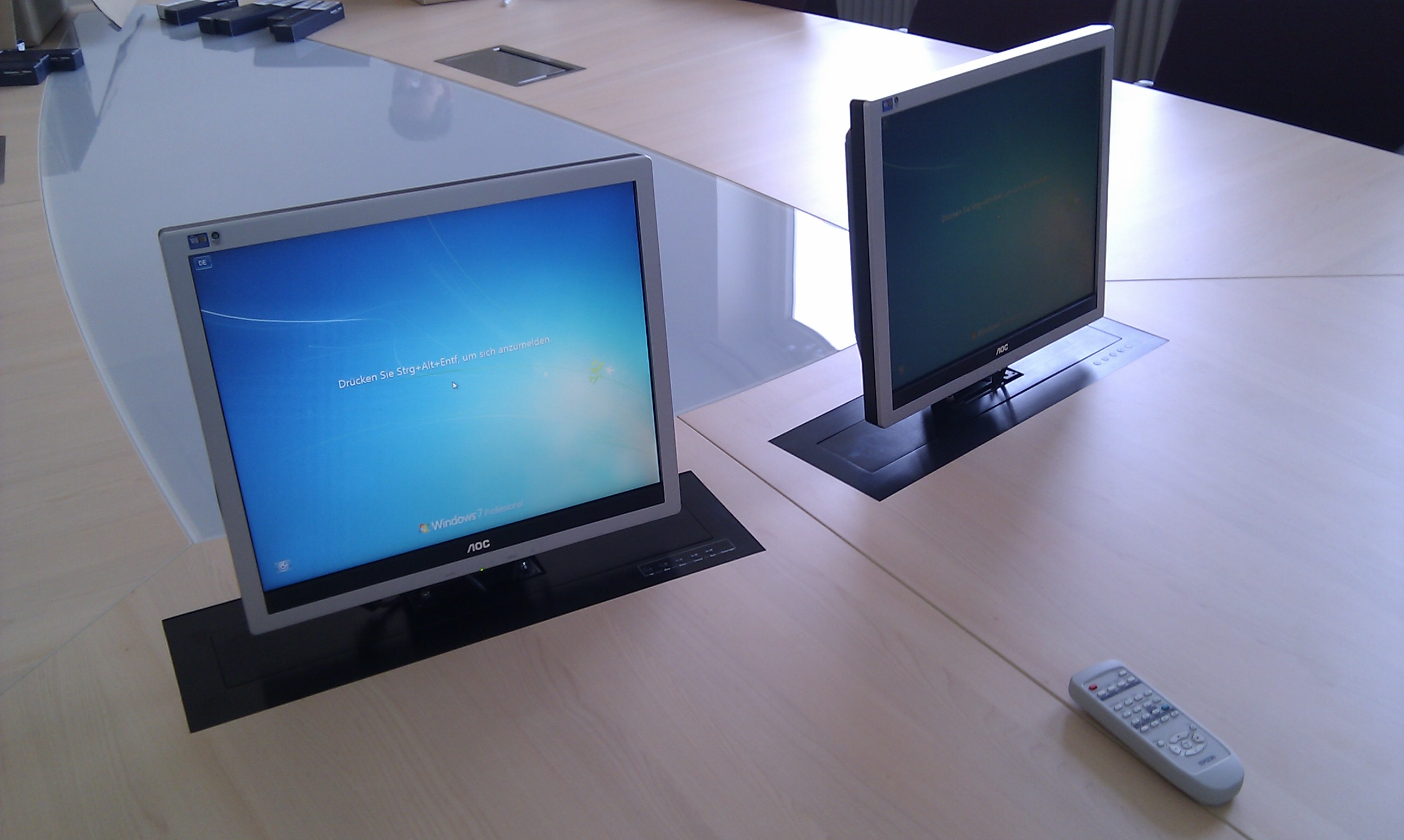 Monitor Lift System